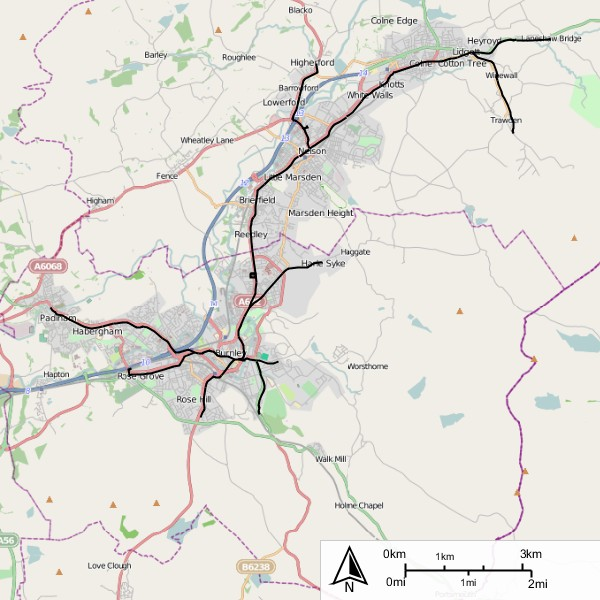 Map showing the Burnley Corporation Tramways, Nelson Corporation Tramways, and the Colne and Trawden Light Railway